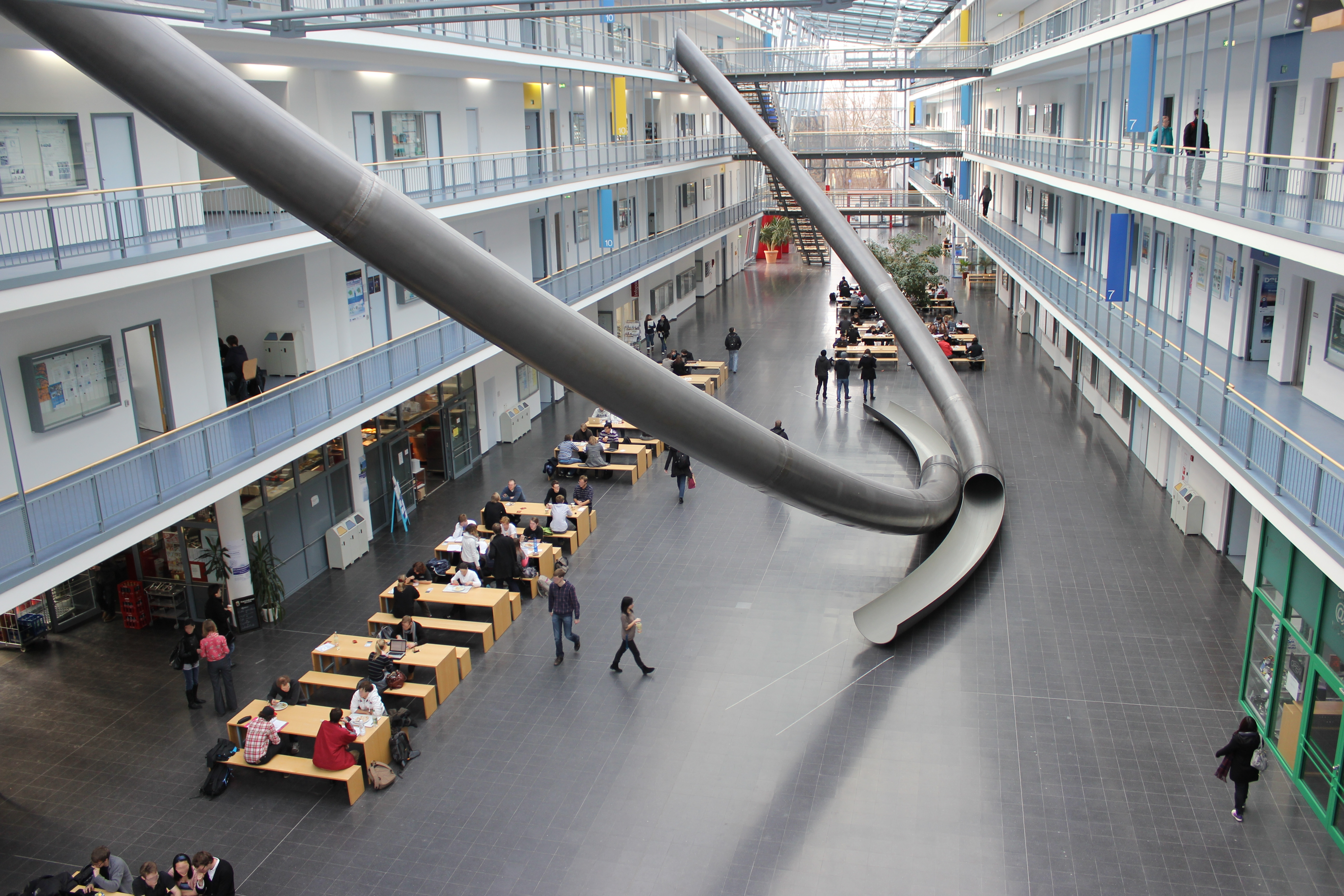 Innenansicht des Gebäudes der Fakultät für Mathematik und Informatik (FMI) der TU München in Garching mit Brunner / Ritz: Parabel, 2002 (vulgo „Parabelrutschen“). Formel: z = y = h x²/d². Die Rutschen dürfen auch von Besuchern benutzt werden; die hierfür zwingend benötigten Rutsch-Matten (Achtung: Bremsbelag in den Röhren!) liegen meist auf Röhren direkt bei den Austrittsöffnungen der Röhren (auf dem Bild schwer zu erkennen).